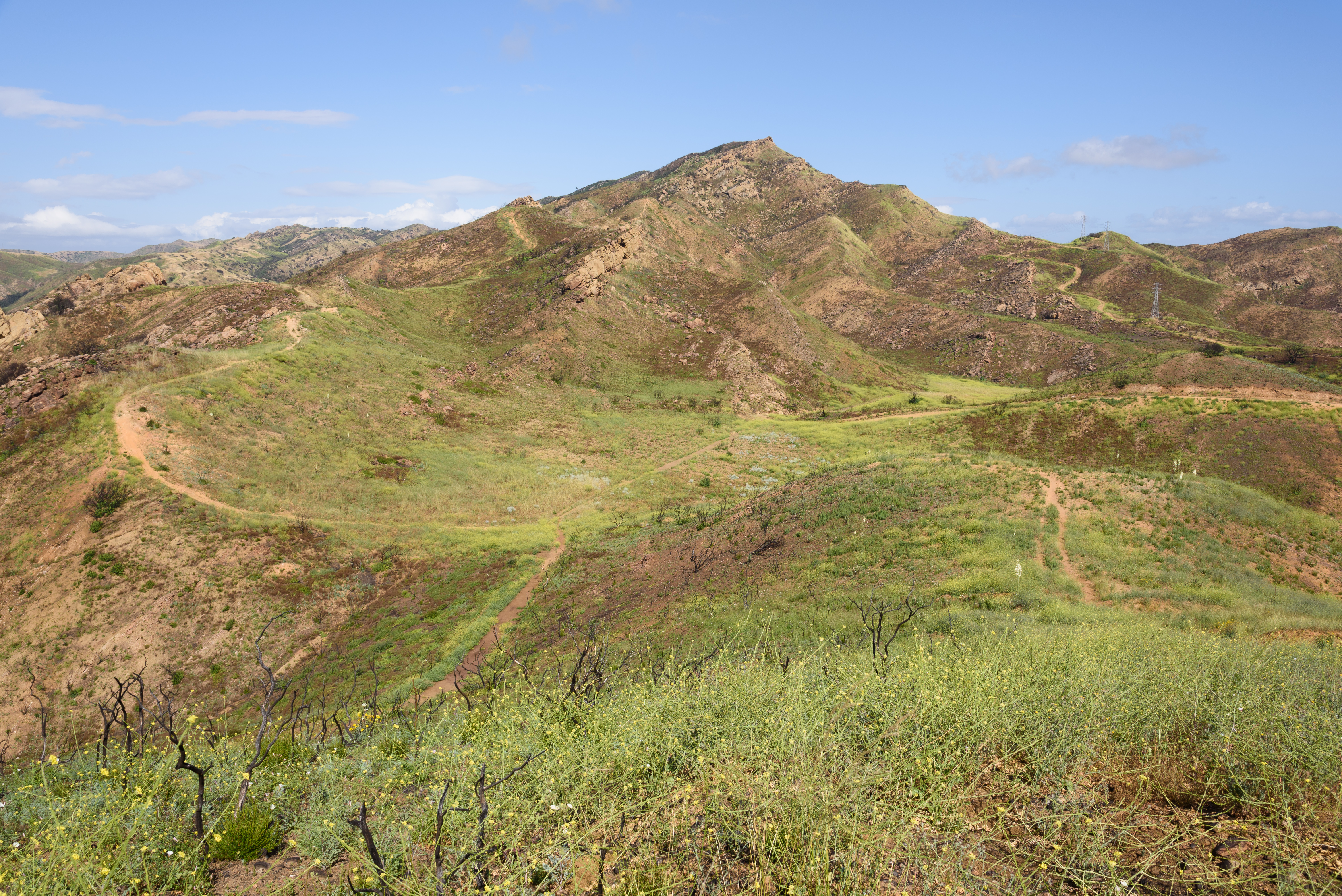 Western summit (2276') of Simi Peak, Oakbrook Vista Trail, North Ranch Open Space, Thousand Oaks, California.